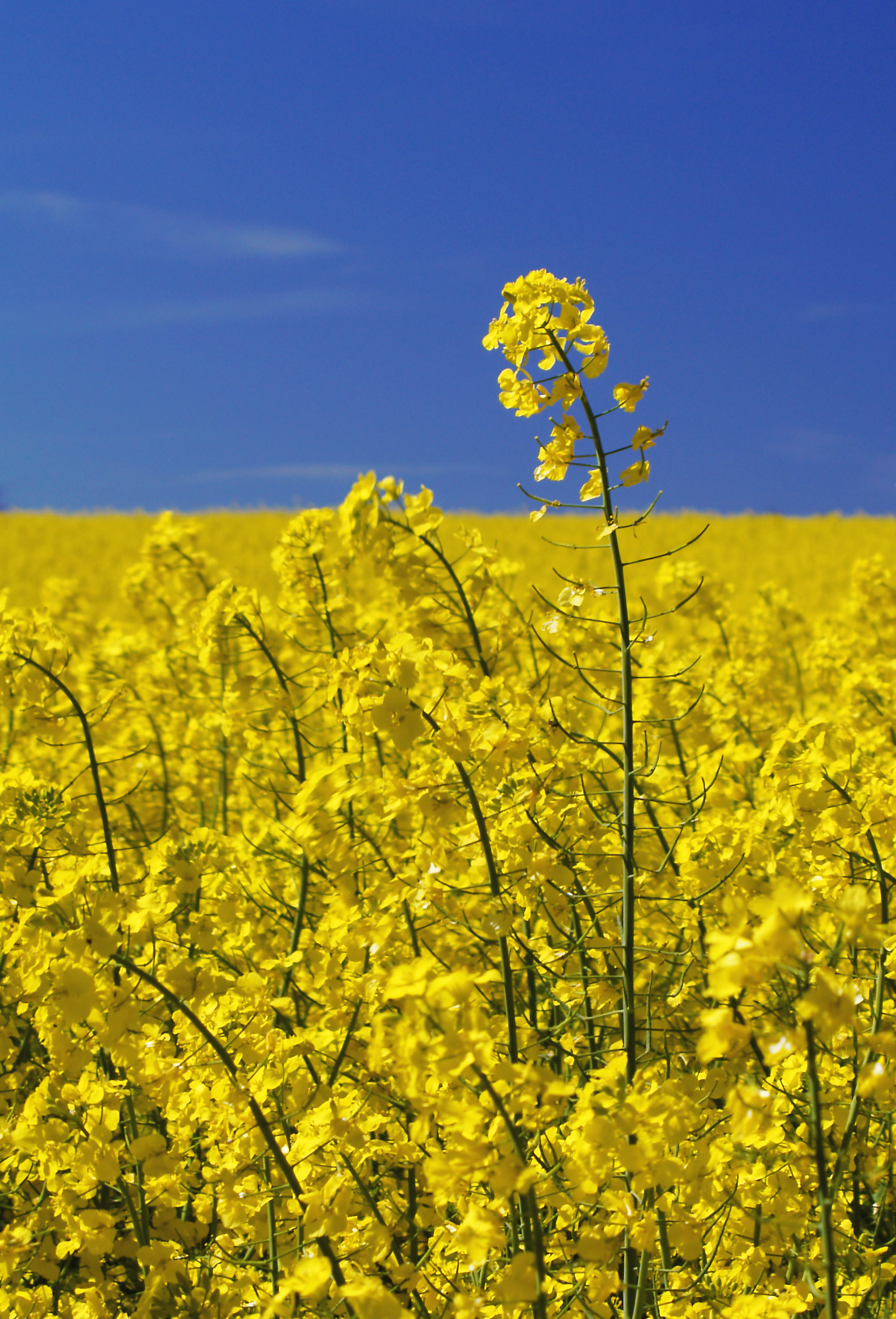 Blooming rapeseed (Brassica napus).